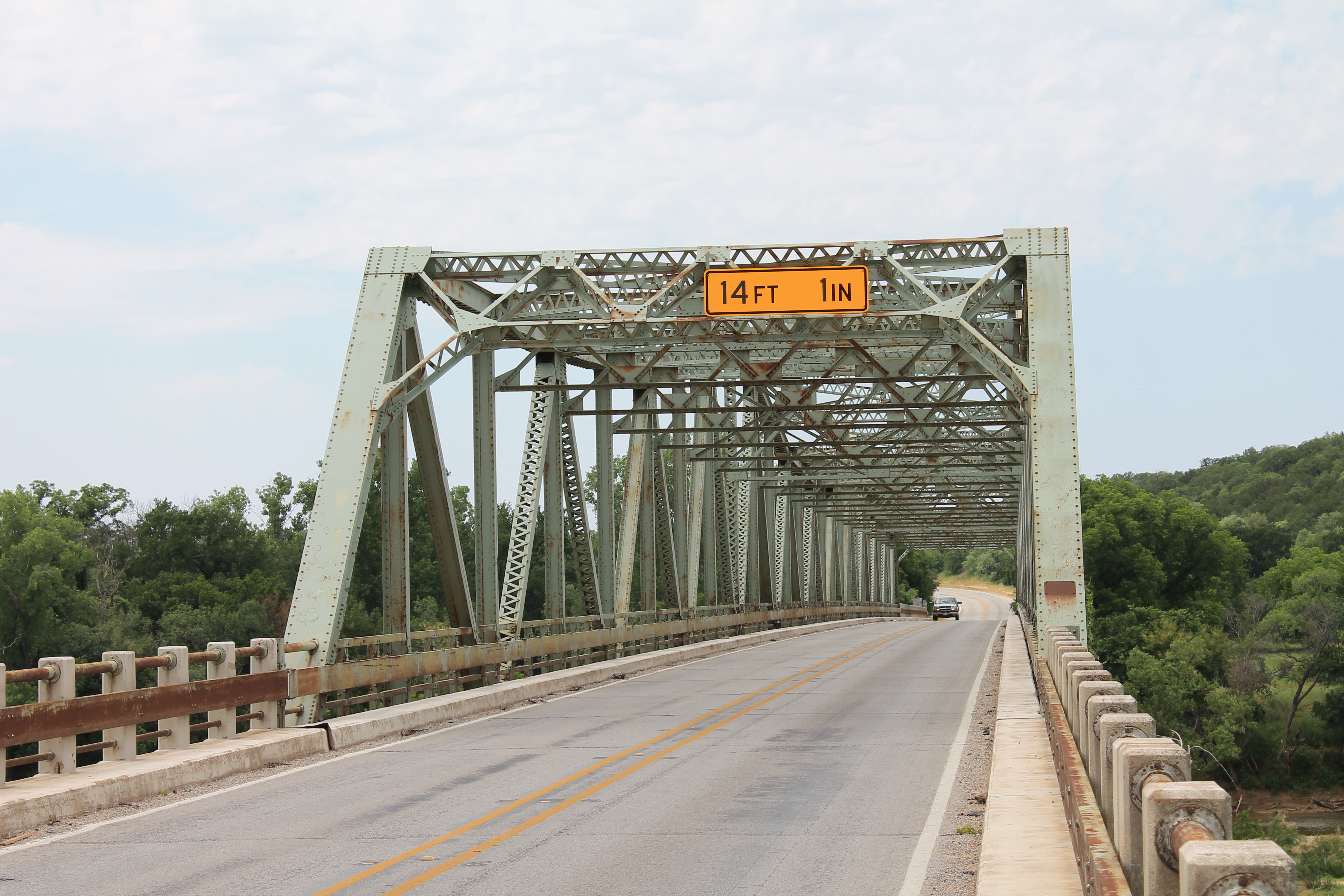 Brazos River Bridge in Palo Pinto County, Texas, carries U.S. Highway 281 across the Brazos River.